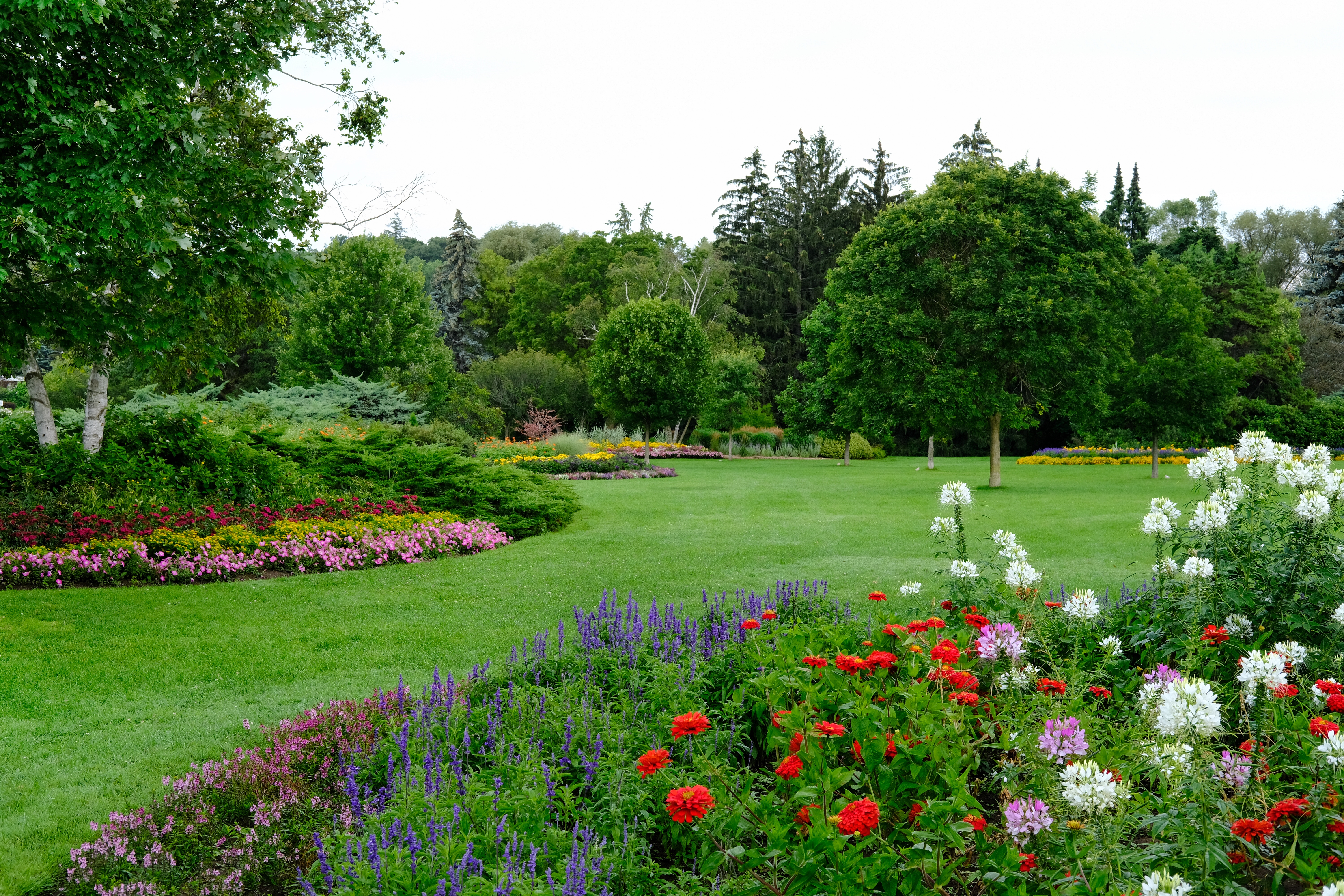 James Gardens, Toronto, August 7th 2017